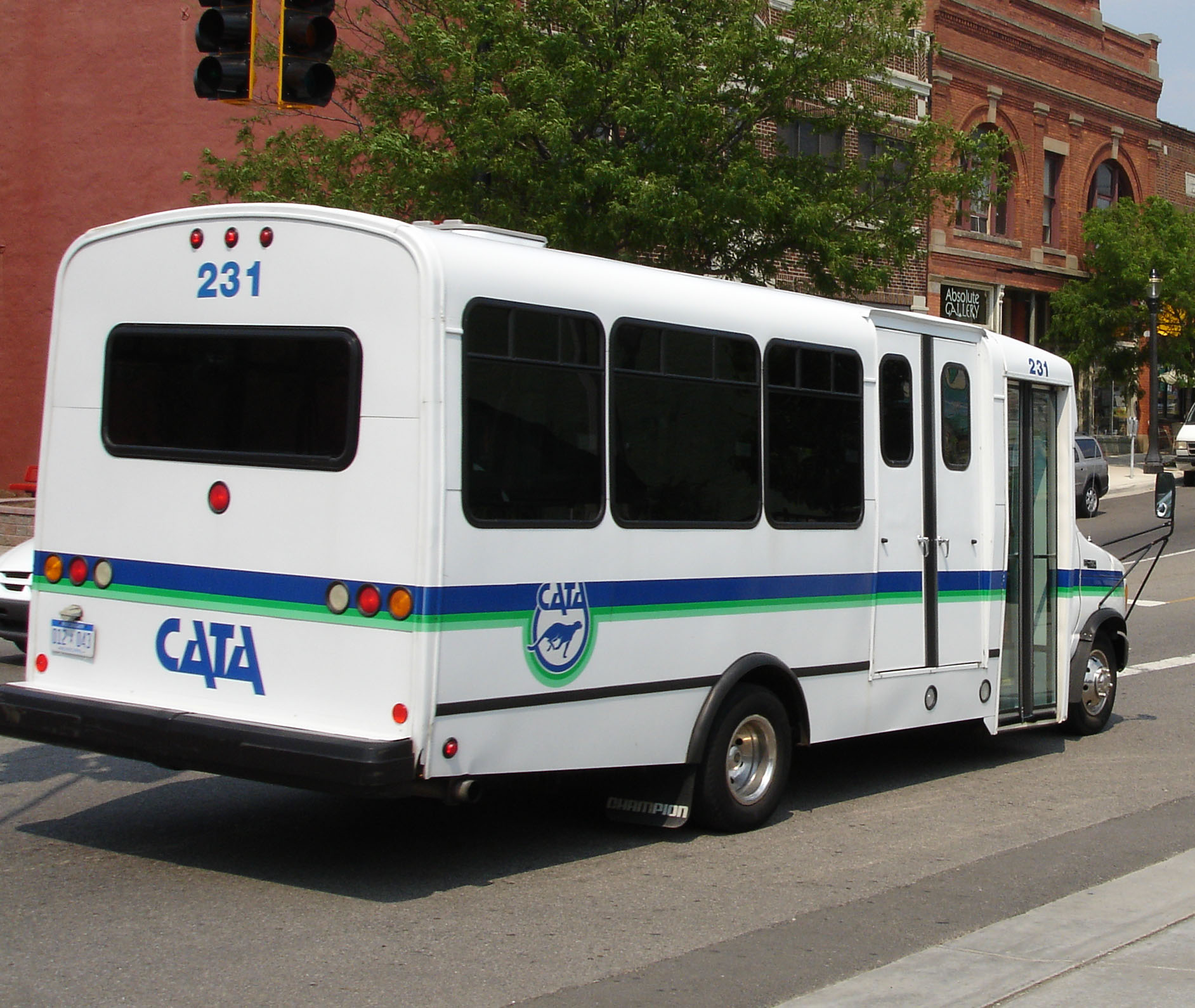 A Capital Area Transportation Authority paratransit bus in Old Town Lansing.